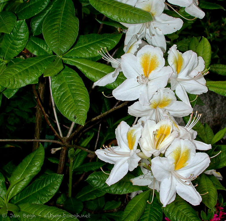 Rhododendron 'Persil'